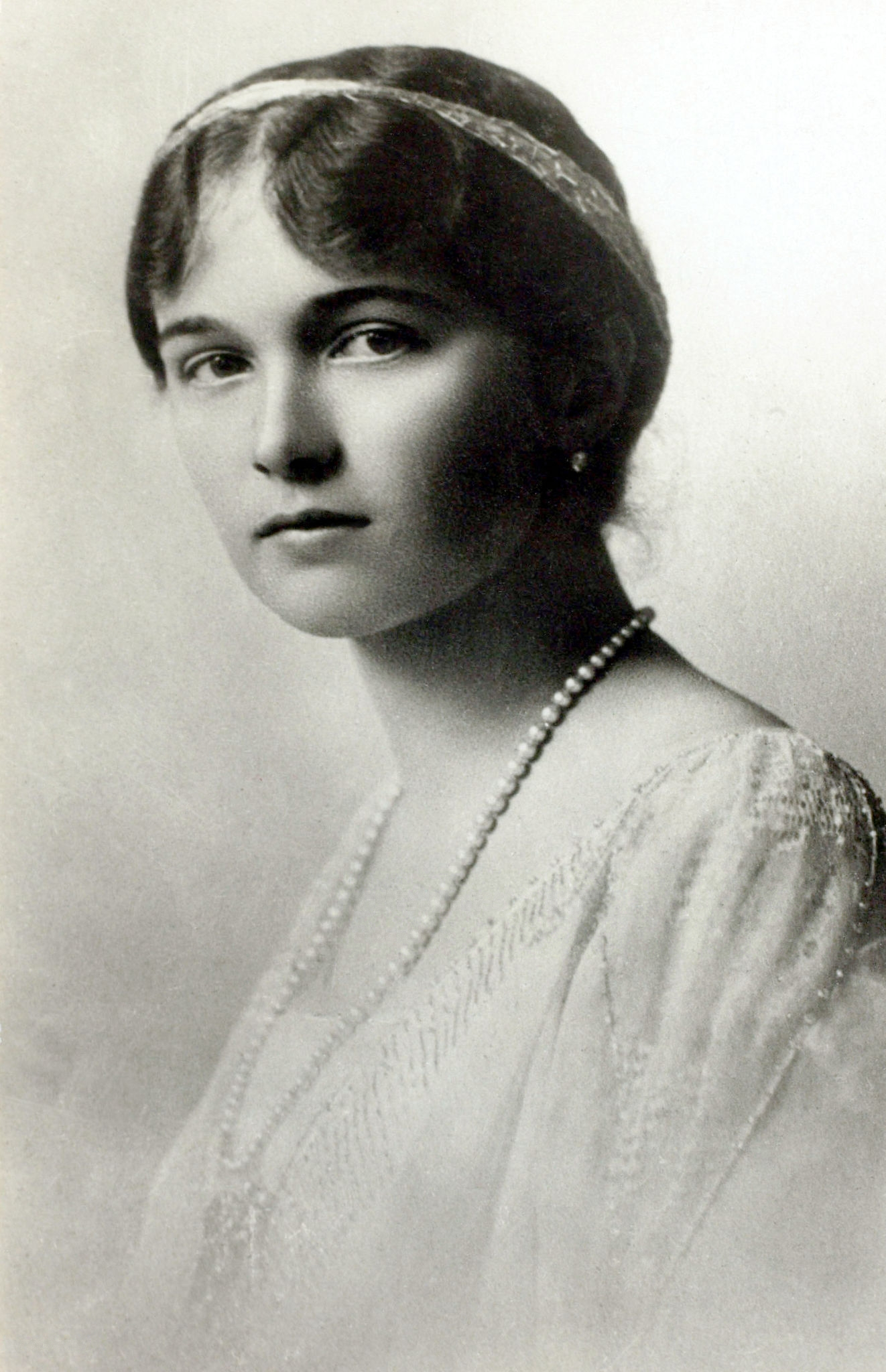 Grand Duchess Olga Nikolaevna